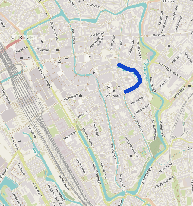 Map of the Kromme Nieuwegracht waterway in Utrecht, The Netherlands